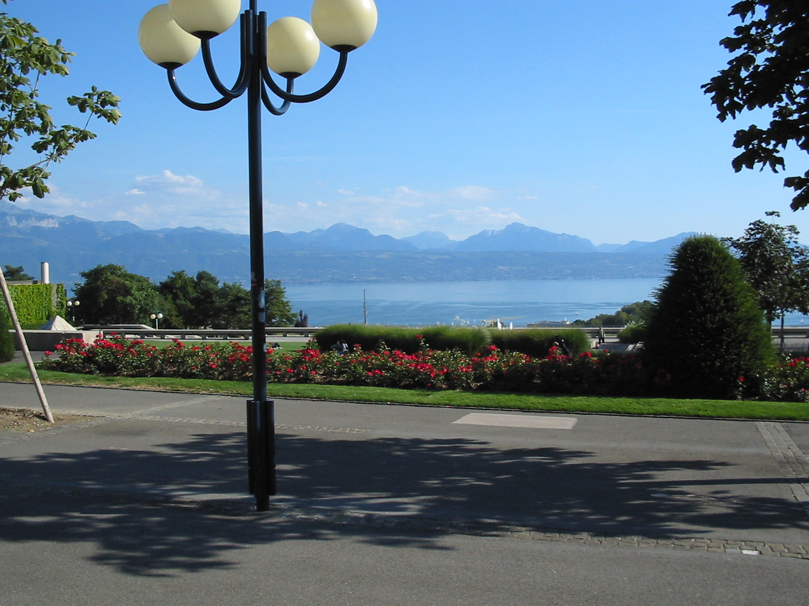 Lausanne, View of the Alps and the Geneva Lake from the Esplanade de Montbenon